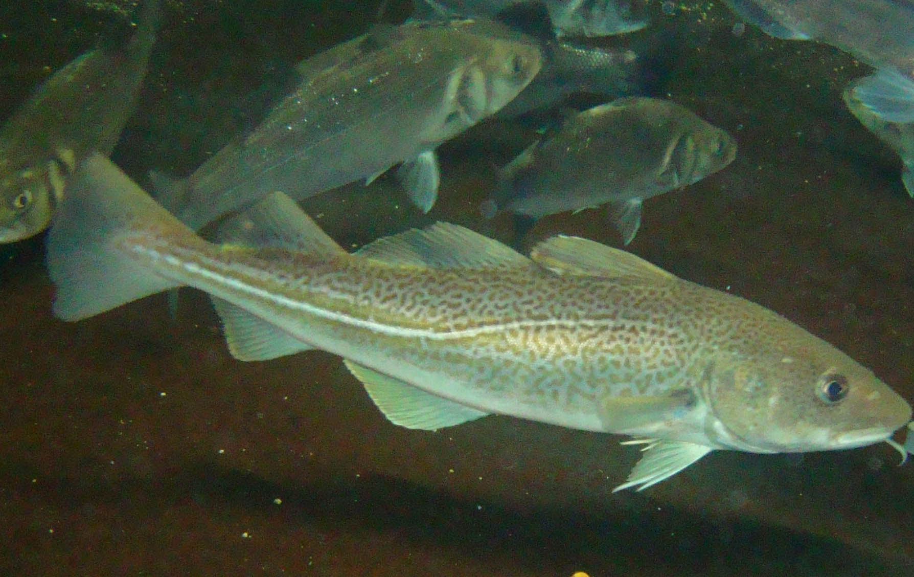 Morue (Gadus morhua) dans les aquariums de Mareis